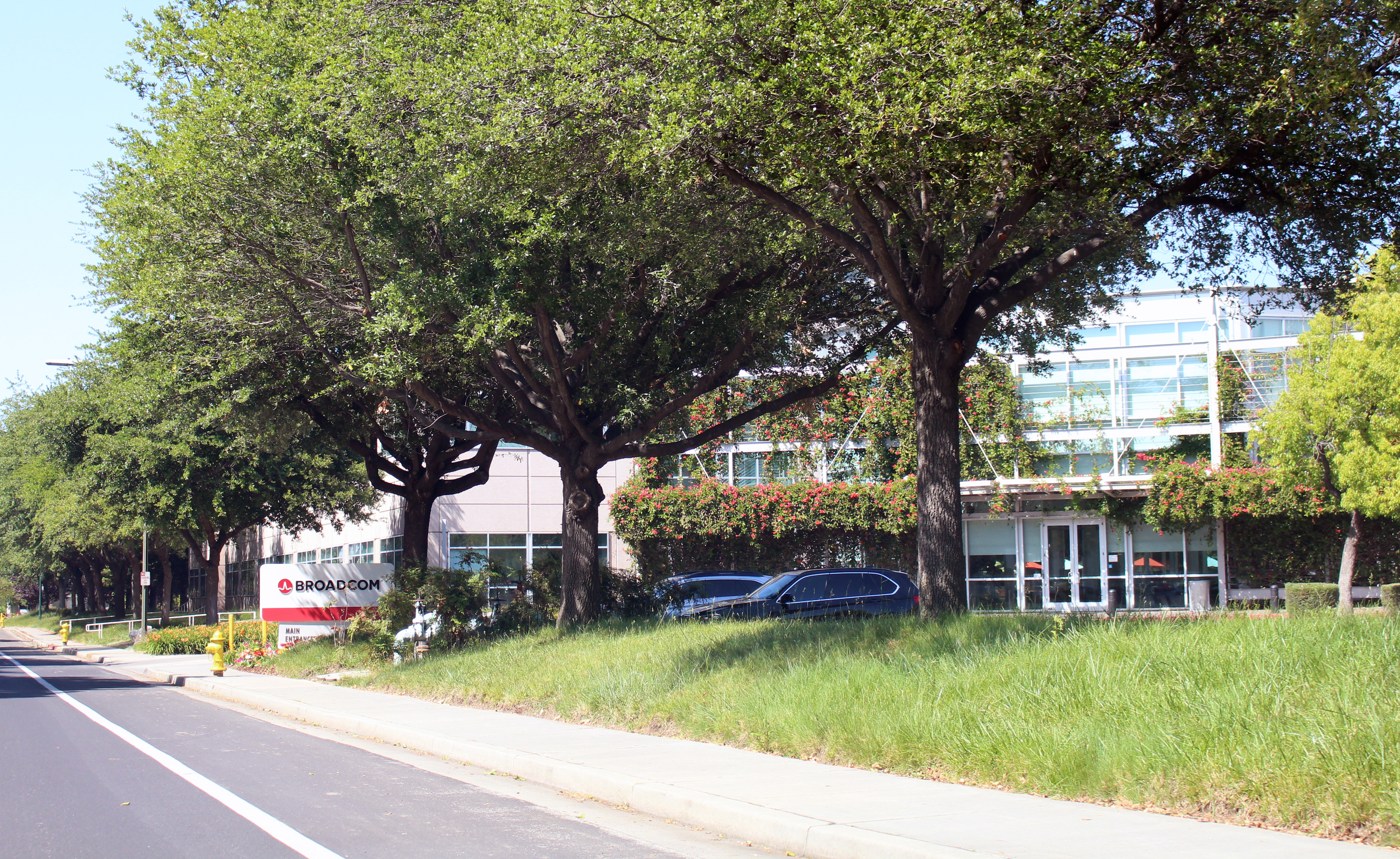 Broadcom Inc. headquarters in San Jose, California. Photographed by user Coolcaesar on June 1, 2019.